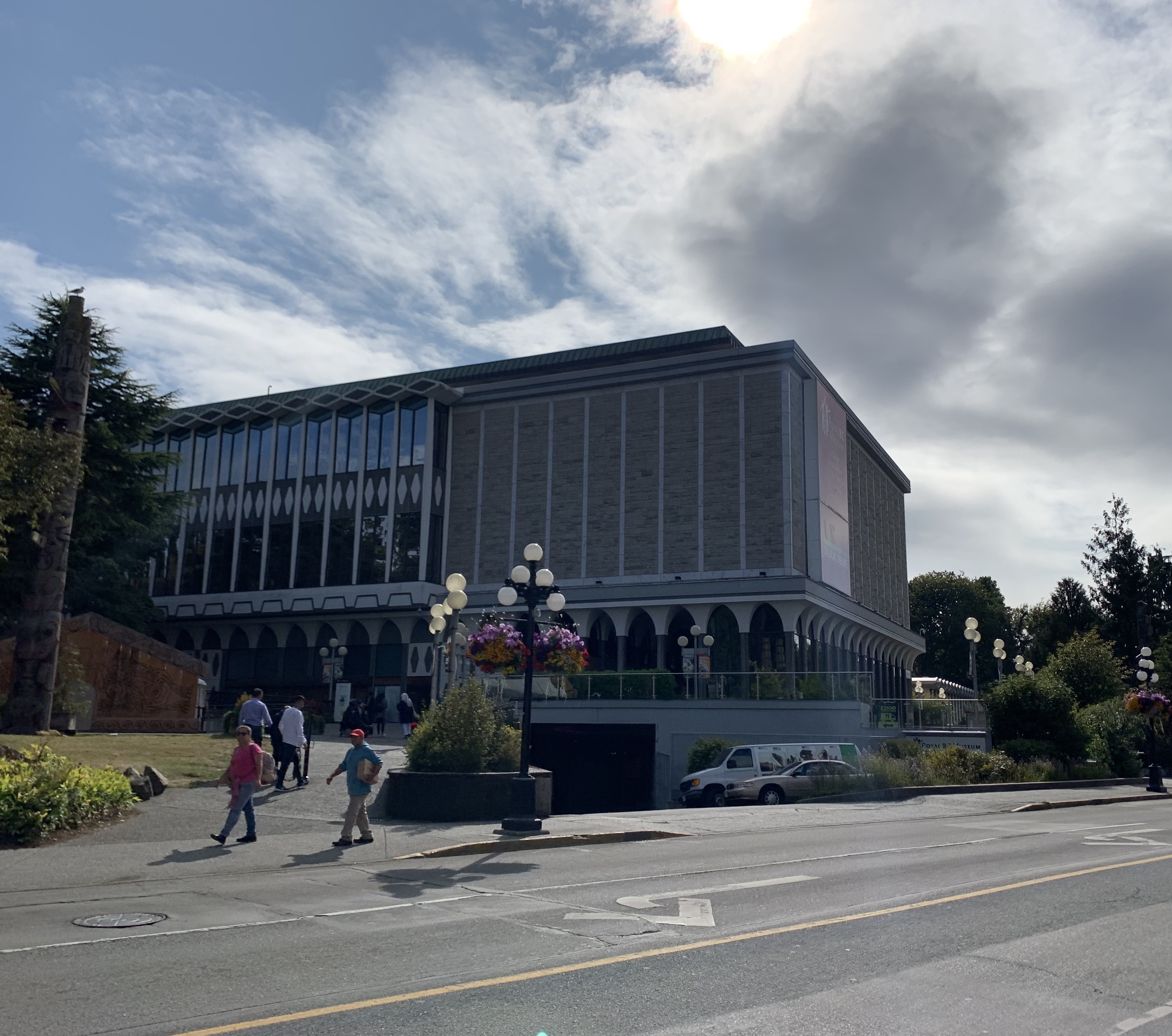 Shooting at August 11, 16:28